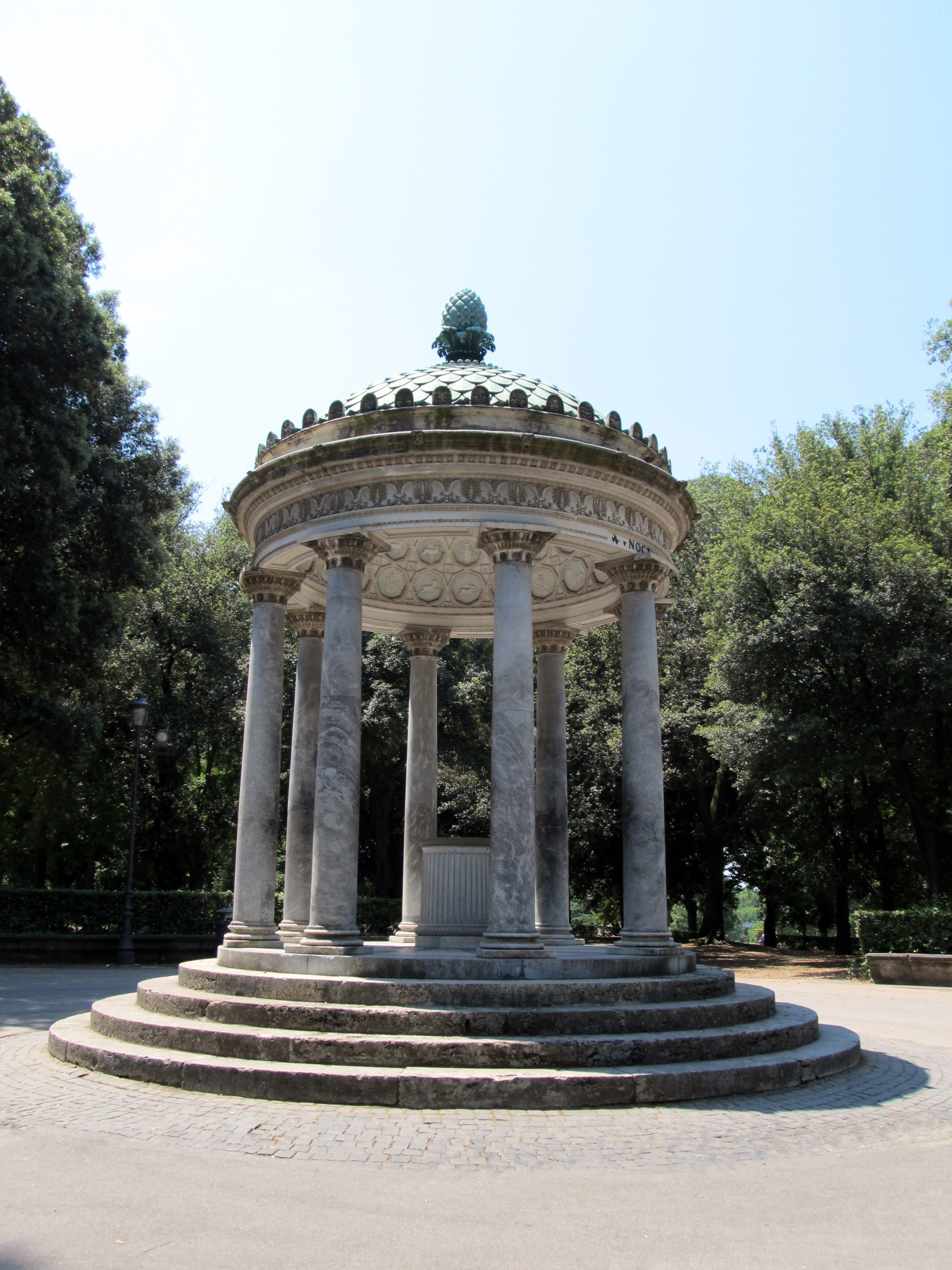 Though it resembles an ancient Roman temple, the Temple of Diana was built in 1789.